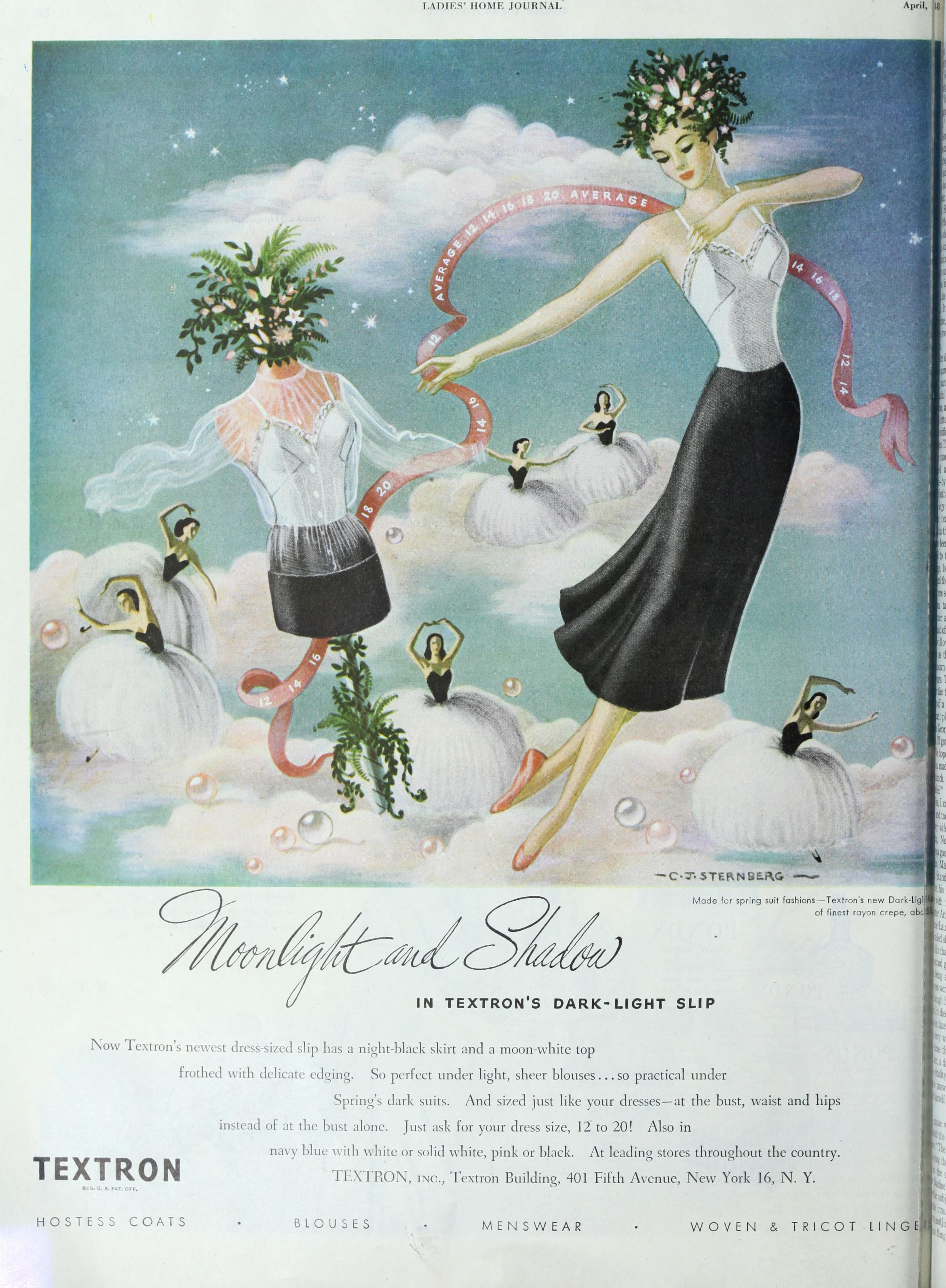 Charlotte J. Sternberg - Textron advertising - Ladies' Home Journal, 1948 Title: The Ladies' home journal Year: 1889 (1880s) Authors: Wyeth, N. C. (Newell Convers), 1882-1945 Subjects: Women's periodicals Janice Bluestein Longone Culinary Archive Publisher: Philadelphia : (s.n.) Text Appearing Before Image: LADIES HOME JOURNAL April, Text Appearing After Image: tr